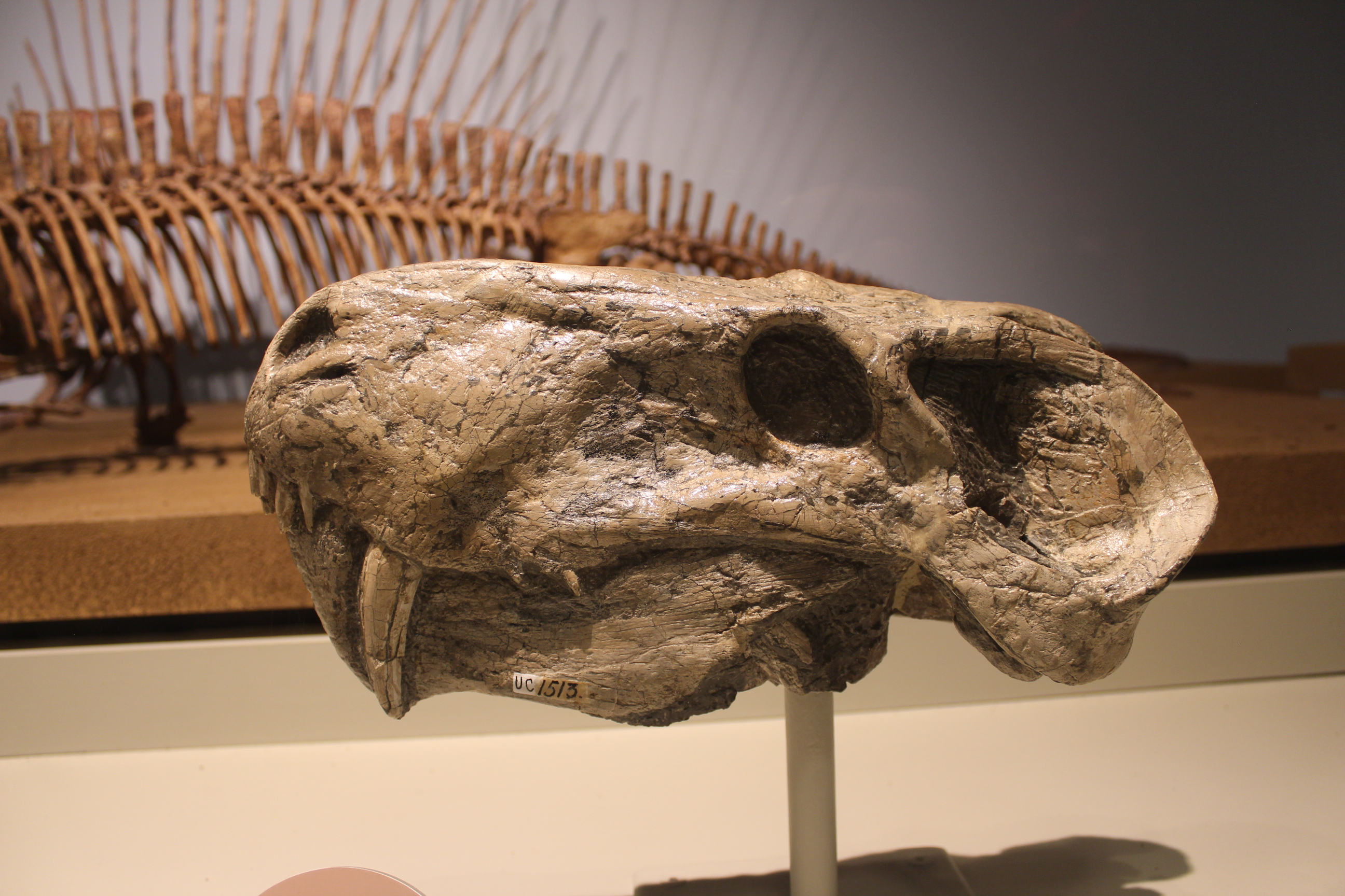 Lycaenops skull on display at the Field Museum of Natural History.